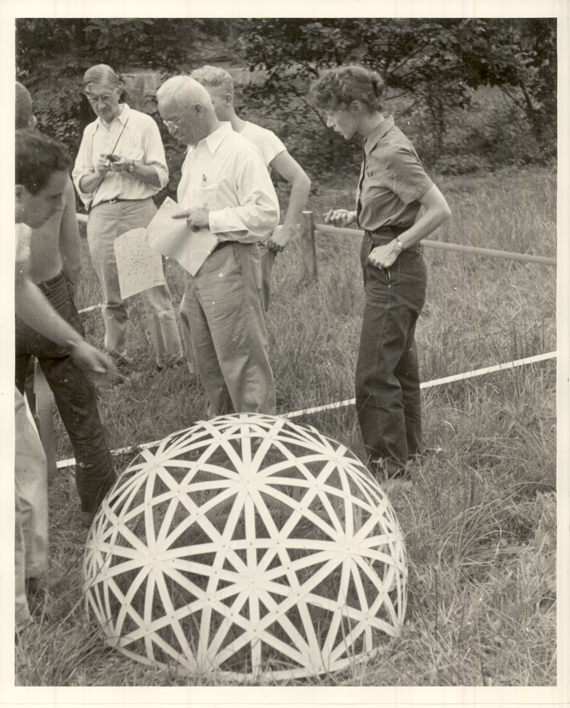 Photo by Beaumont Newhall, Summer 1948. Courtesy Beaumont & Nancy Newhall Estate. Scheinbaum & Russek Ltd., Santa Fe, N.M. © Beaumont & Nancy Newhall Estate. Reproduced from the Black Mountain College Research Project Papers, Visual Materials, North Carolina State Archives, Western Regional Archives, Asheville, NC (formerly Raleigh, NC)